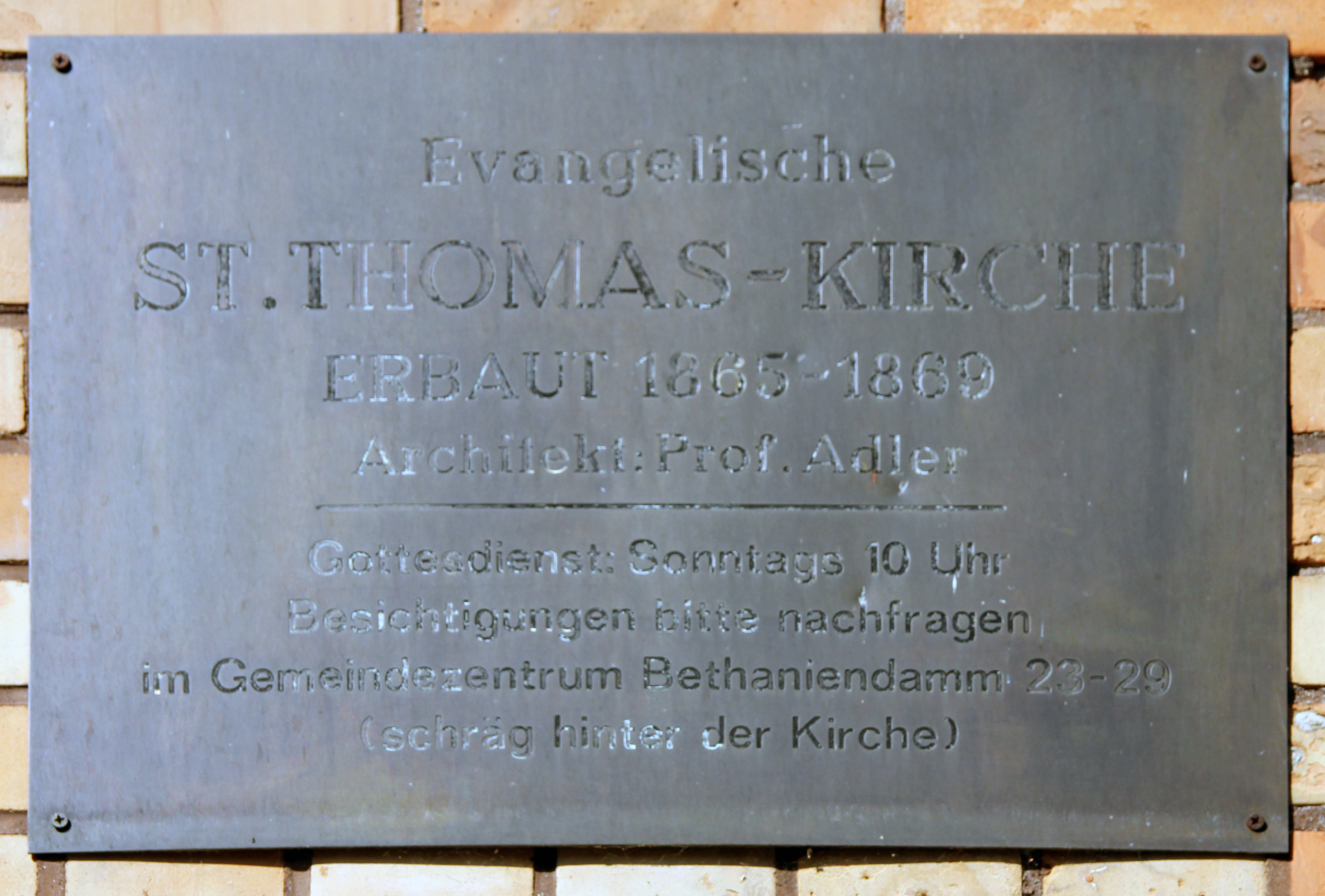 Memorial plaque, St. Thomas-Kirche, Mariannenplatz, Berlin-Kreuzberg, Germany